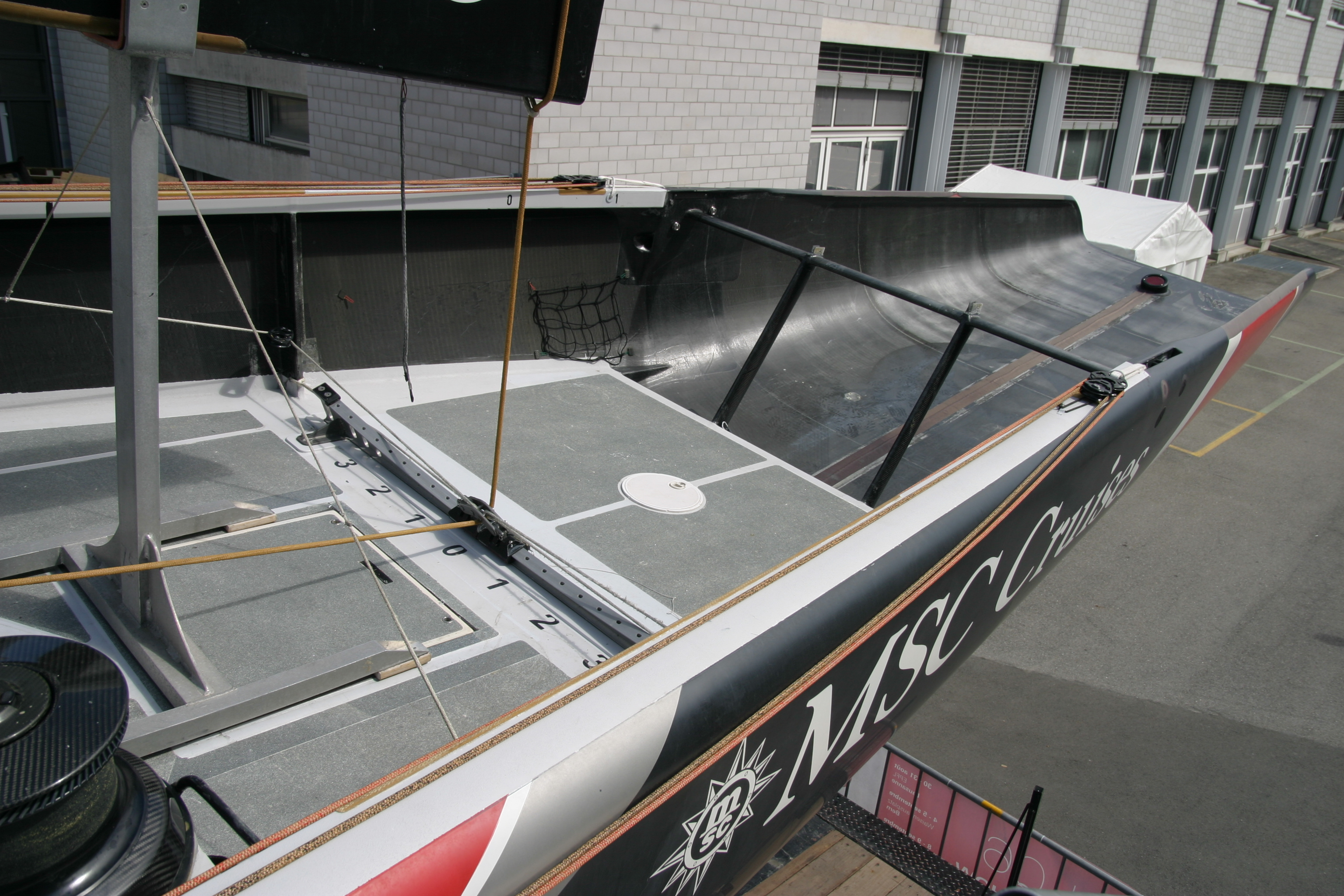 Alinghi on display at the EPFL, 30th of August 2006